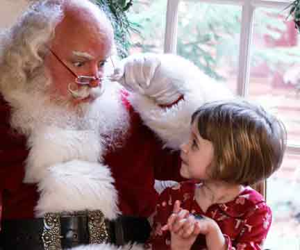 Santa Claus portrayed by Jonathan Meath, listening to a child's request regarding toys for Christmas.